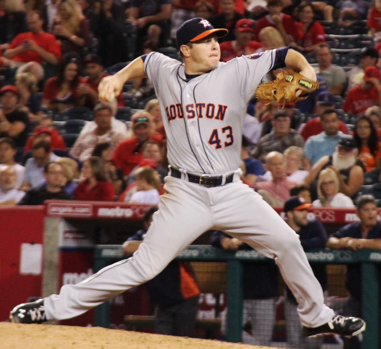 Peacock Astros